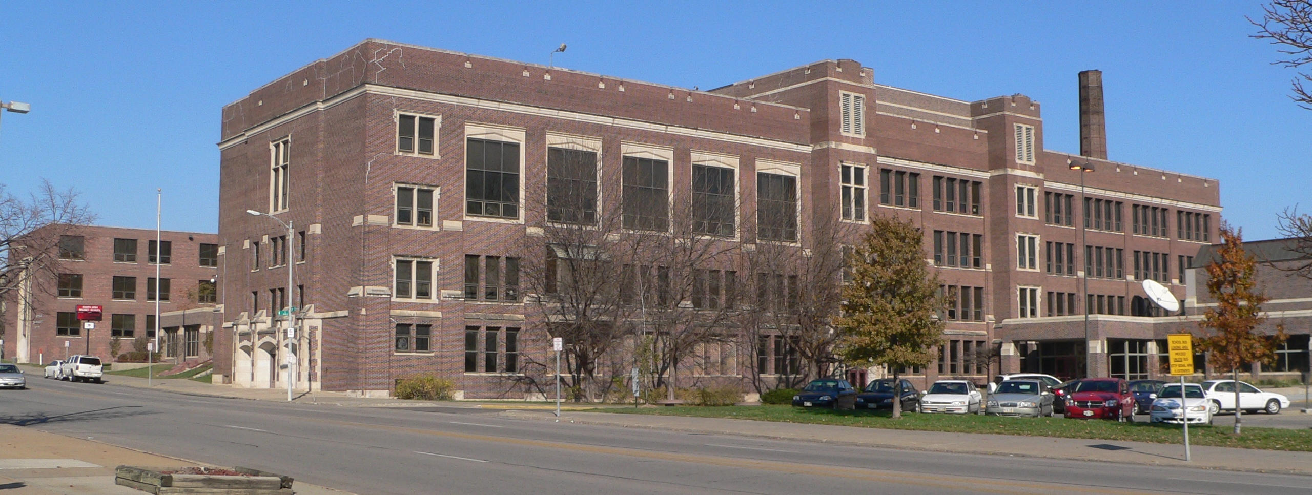 Omaha South High School in Omaha, Nebraska, seen from the southwest. Camera is south of the intersection of 24th and K.